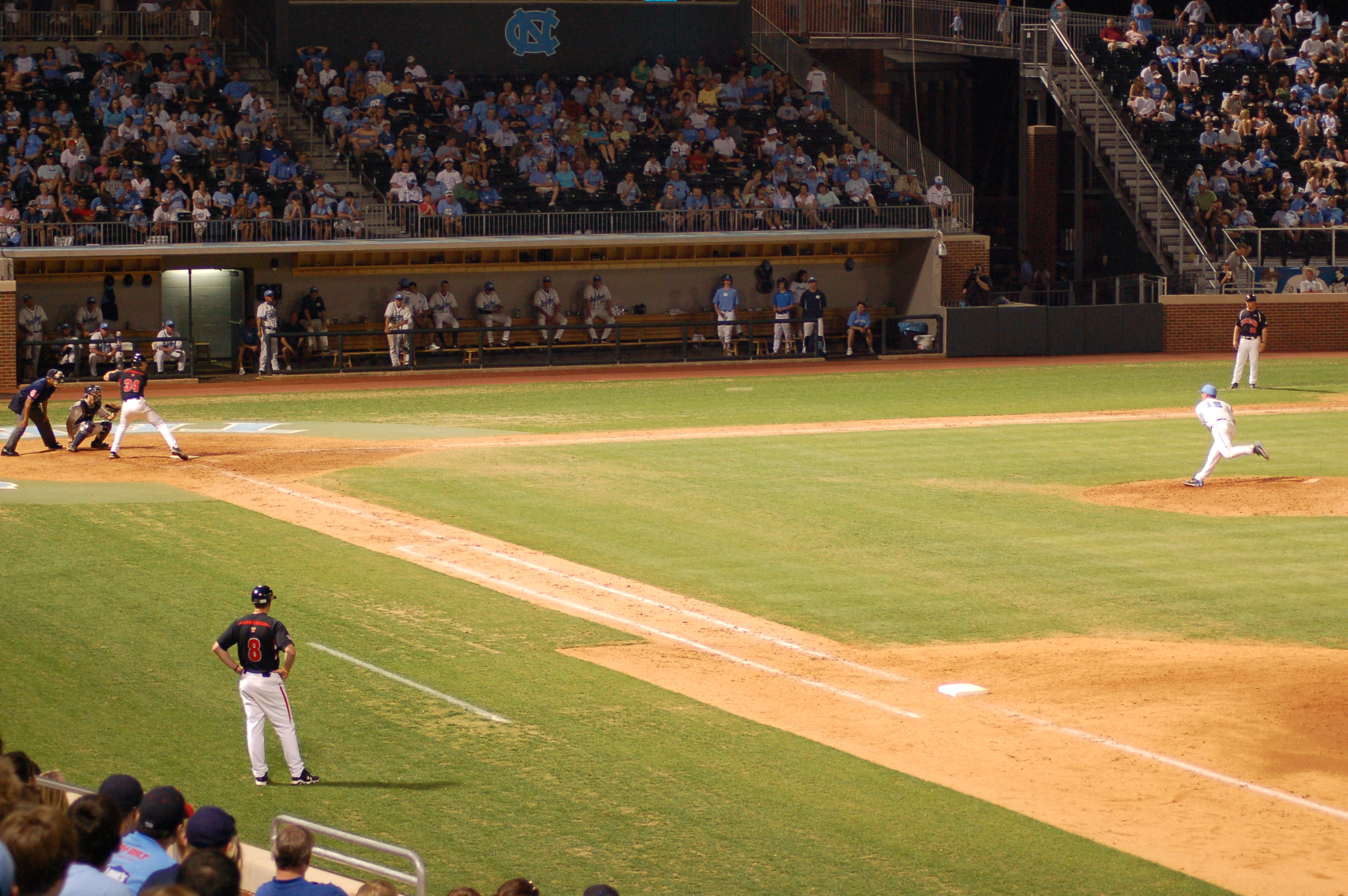 UNC Chapel Hill baseball team playing the University of Maryland at Boshamer Stadium in Chapel Hill, North Carolina.